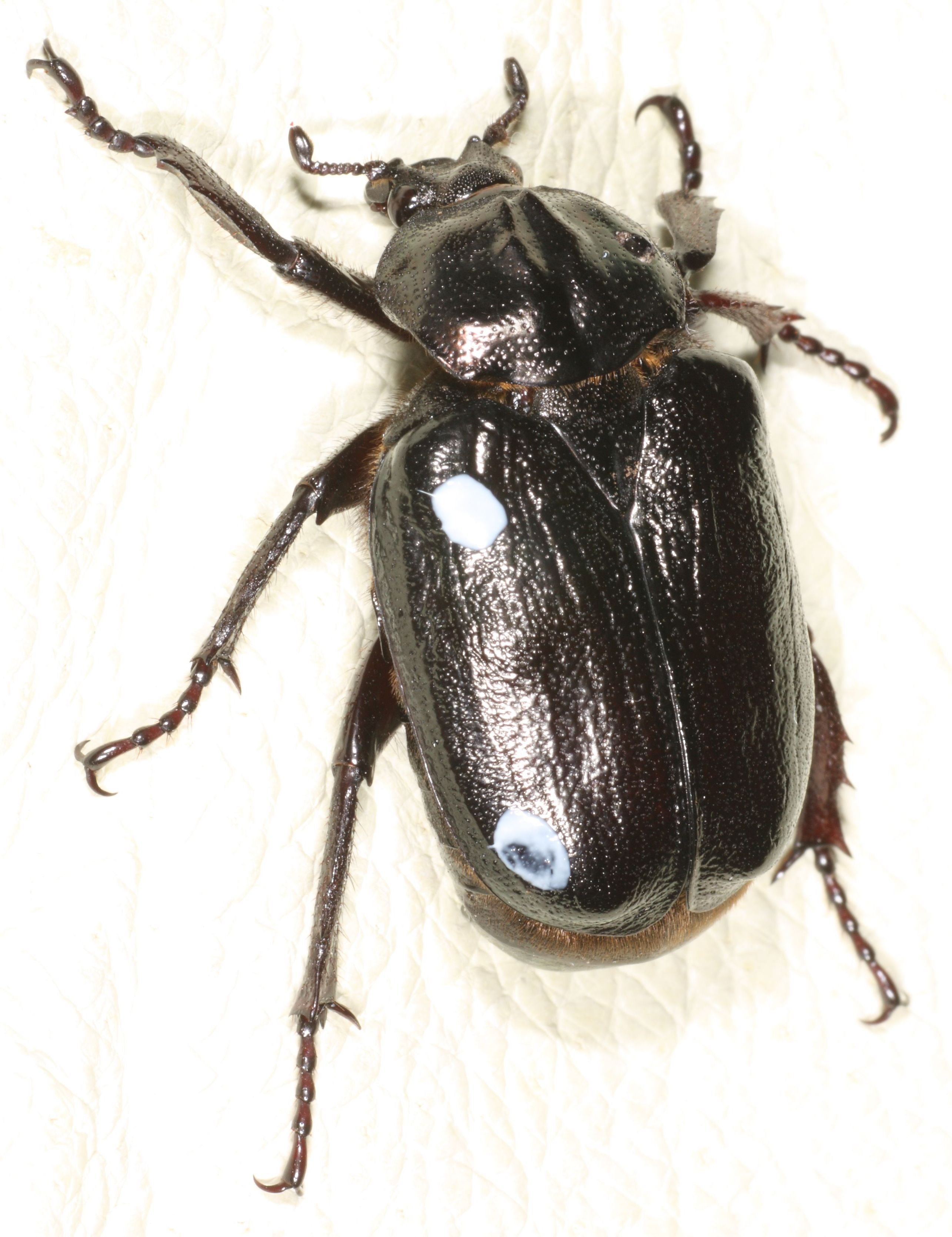 Hermit beetle Osmoderma eremita male. Individual labeling with nail polish for counting, this is No. 34.